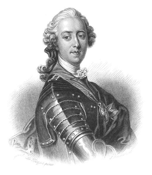 Charles Edward Stuart